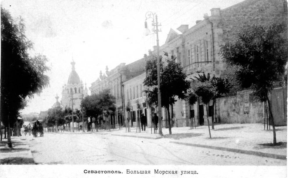 Bolshaya Morskaya street in the early 20th century